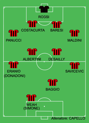 AC Milan lineup, 1995-1996 Serie A season